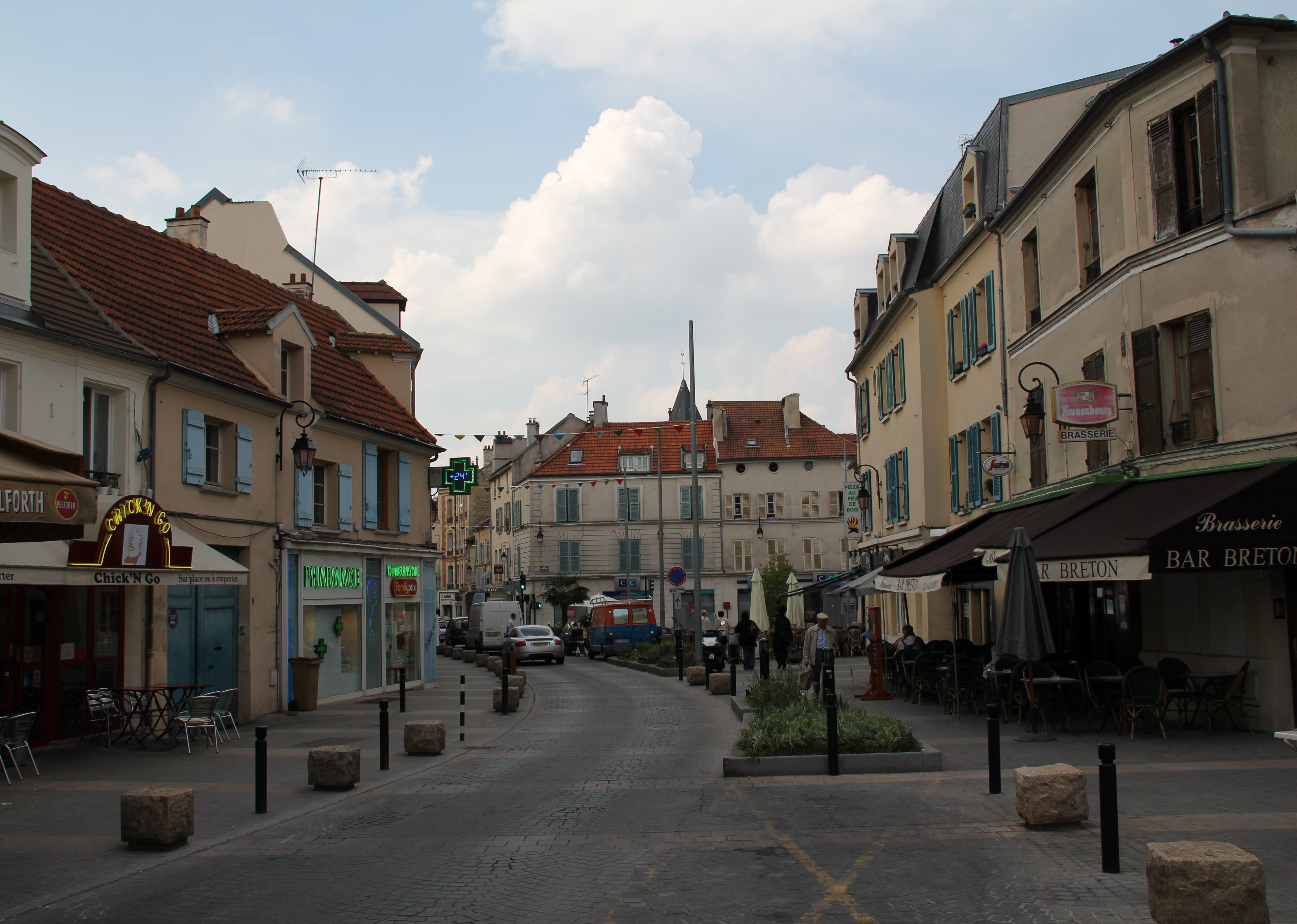 Gabriel Péri Square, in Nanterre, Hauts-de-Seine, France.